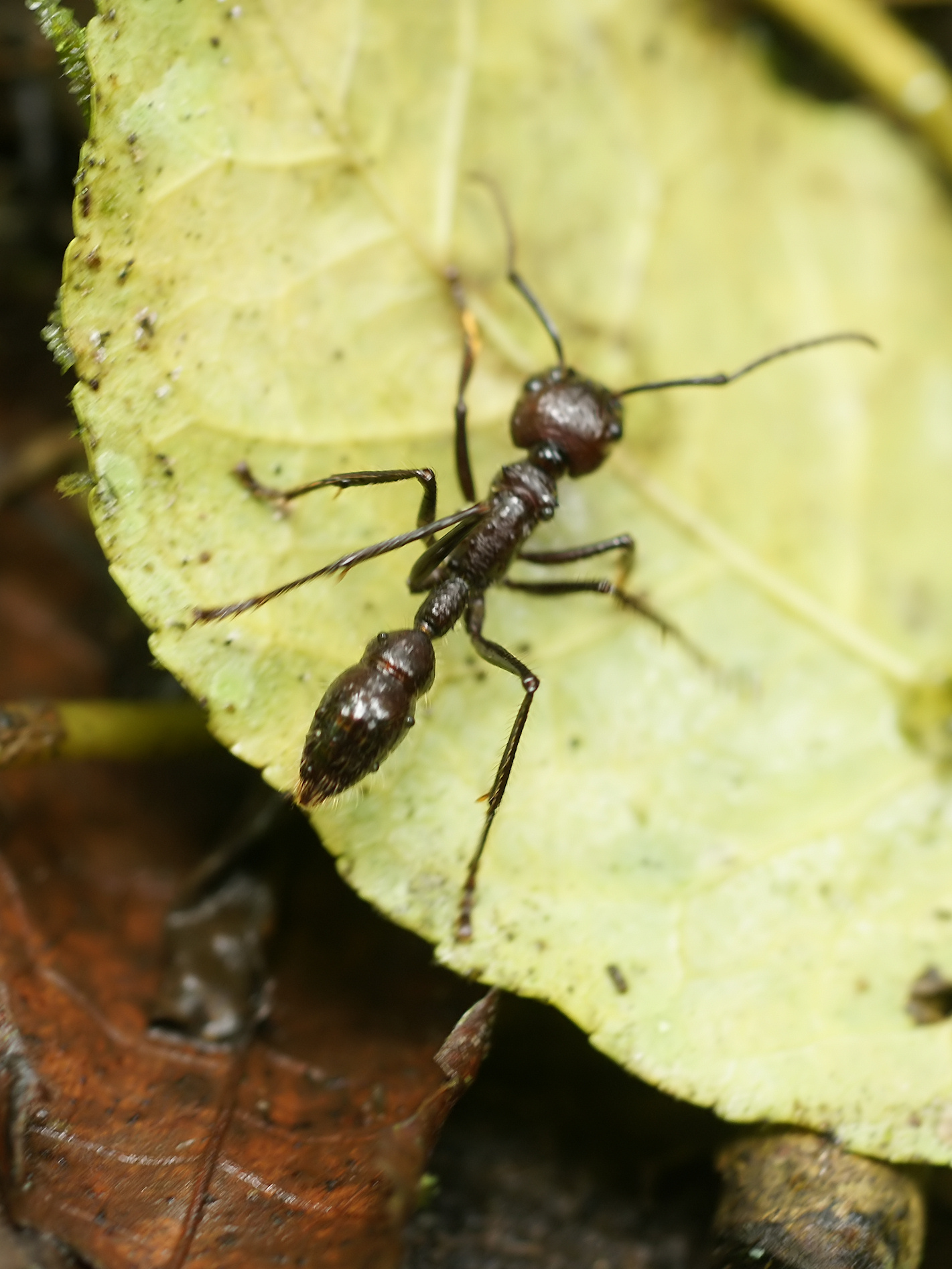 22 mm long Bullet ant near La Selva Biological Station (OTS), Costa Rica.